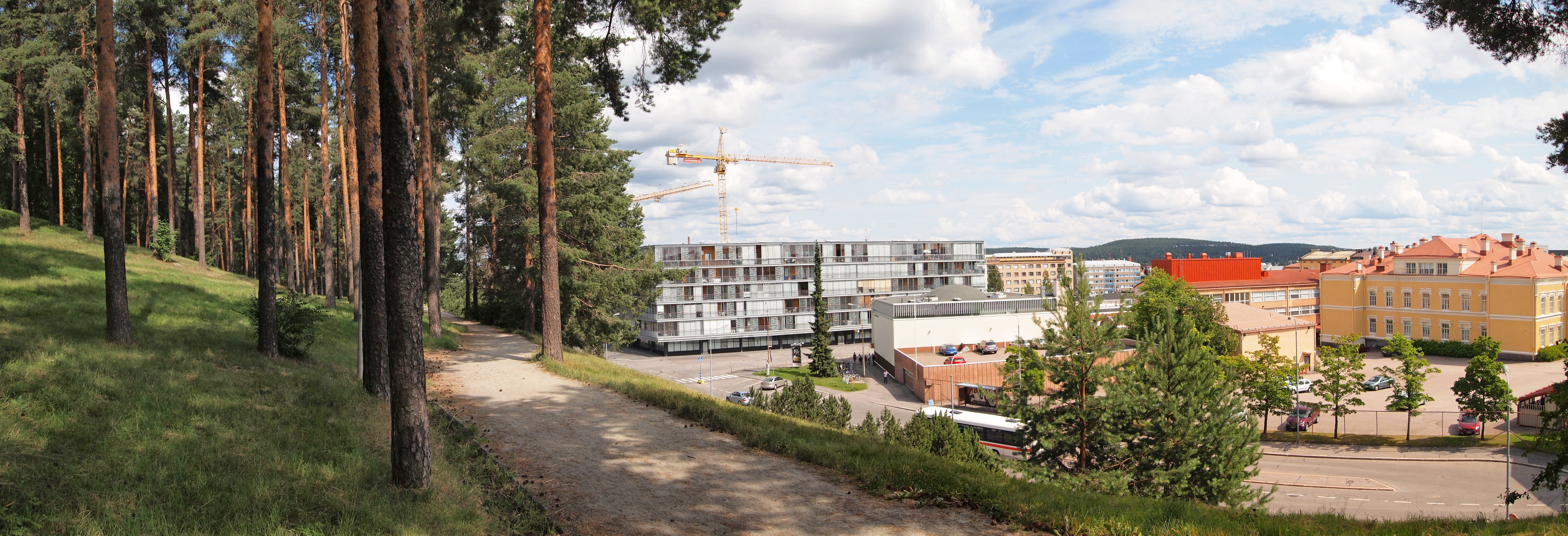 View from a footpath on hill Harju in Jyväskylä.